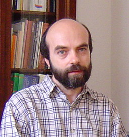 Czech-Polish poet and aphorist Lech Przeczek